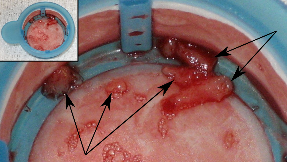 Intracoronary thrombus removed from a coronary artery during a percutaneous coronary intervention to abort a myocardial infarction. Five pieces of thrombus are shown (arrow heads). I personally removed the thrombus and then took the picture. Ksheka 01:20, 14 December 2006 (UTC)